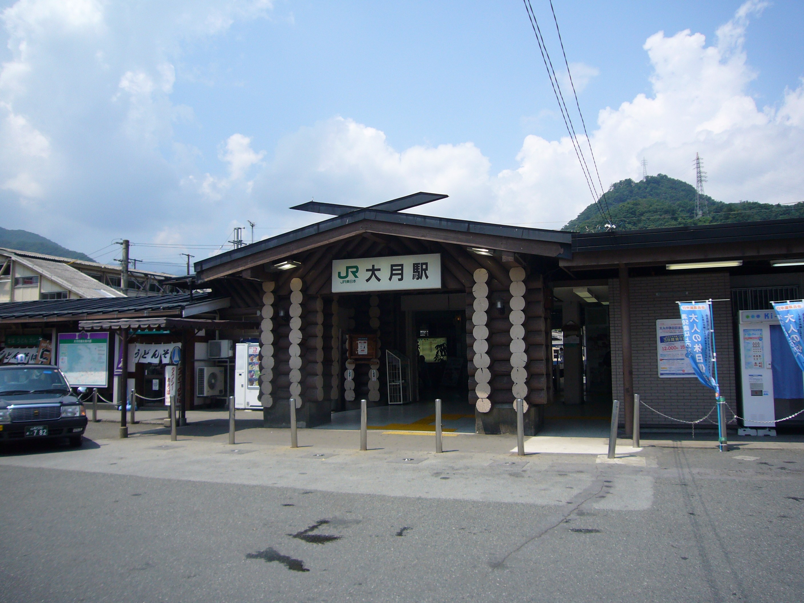 Otsuki Station in Yamanashi Prefecture, Japan